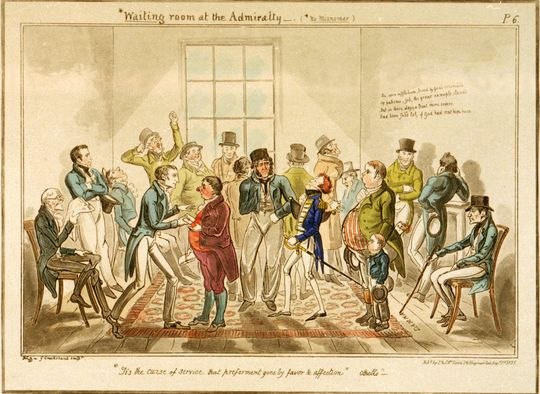 Midshipman Blockhead, Waiting room at the Admiralty (no misnomer). caricature by George Cruikshank